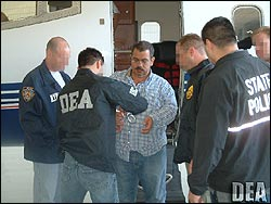 Diego Fernando Murillo alias Don Berna, colombian drug lord.